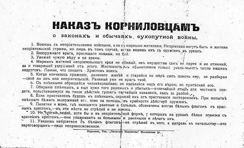 Copy of propaganda poster with word to staff of Kornilov (antibolshevik forces) regiment during Russian civil war.